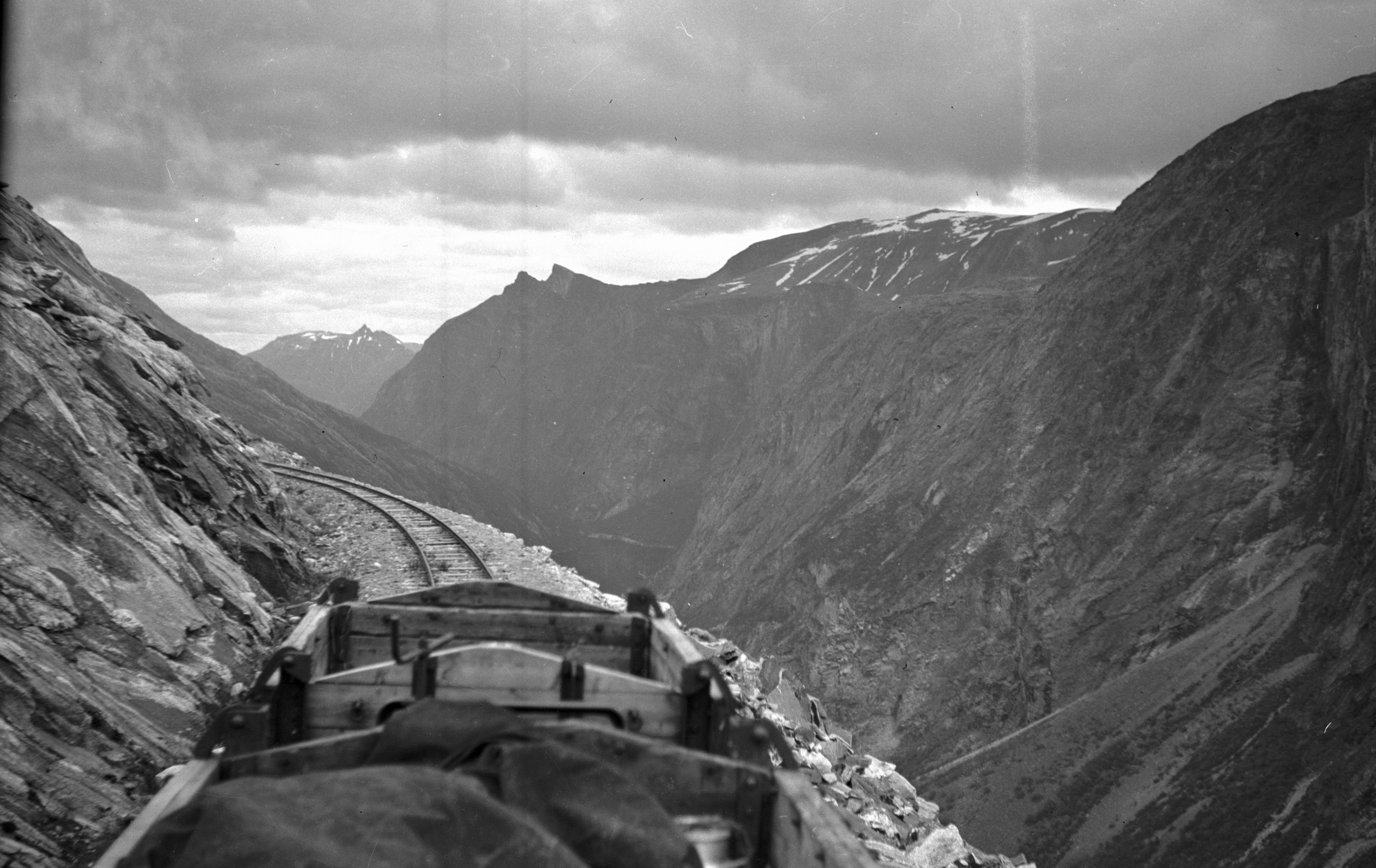 Industrial railway used during the building of Aura hydroelectric power station in Sunndal, Norway